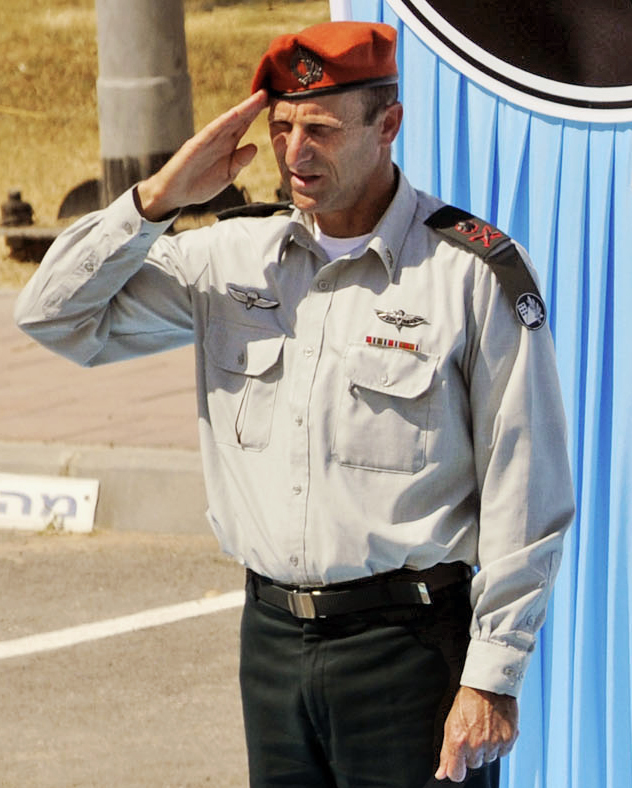 June 15, 2011 This morning, the replacement ceremony for the GOC Home Front Command took place at the Command's headquarters in Ramle. The IDF Chief of the General Staff, Maj. Gen. Benny Gantz led the ceremony, in which Maj. Gen. Eyal Eisenberg replaced Maj. Gen. Yair Golan as GOC Home Front Command. The outgoing commander of the Home Front Command, Maj. Gen. Golan served for three and a half years in the position and is now set to be appointed as the new GOC Northern Command. The Chief of Staff, Lt. Gen. Benny Gantz spoke at the ceremony about the significance of the Home Front Command: "This is a sensitive time and it is the IDF's duty to stand guard and make all efforts to ensure that Israel remains an island of security. The current reality of instability further complicates the Home Front Command's mission." Pictured (l-r): Maj. Gen. Eyal Eisenberg, Lt. Gen. Benny Gantz, Maj. Gen. Yair Golan